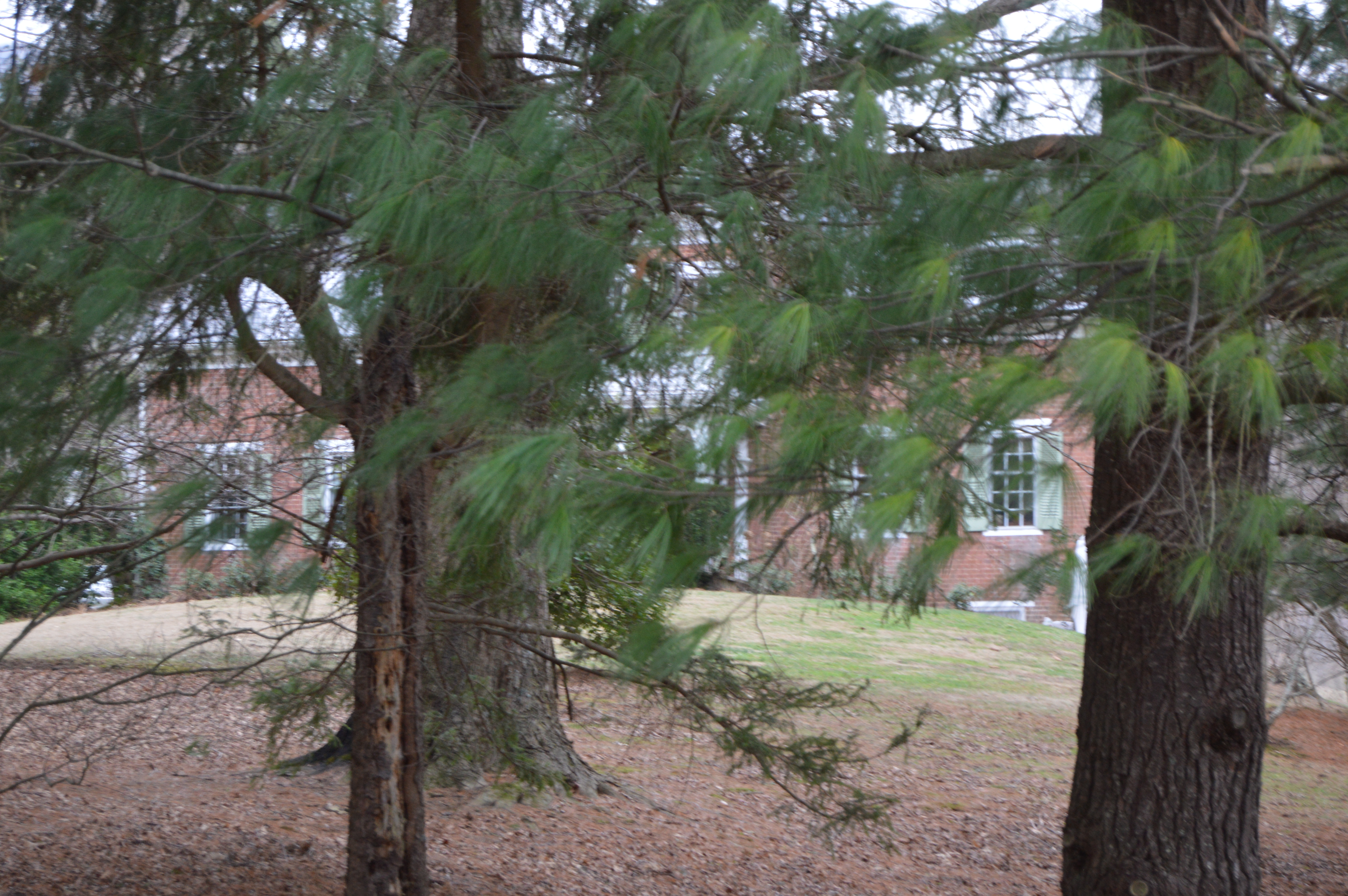 Through-the-trees view of the farmhouse at Chimney Rock Farm, located on State Route 91 below Frog Level in the Witten Valley of Tazewell County, Virginia, United States. Built in 1843, it is listed on the National Register of Historic Places.